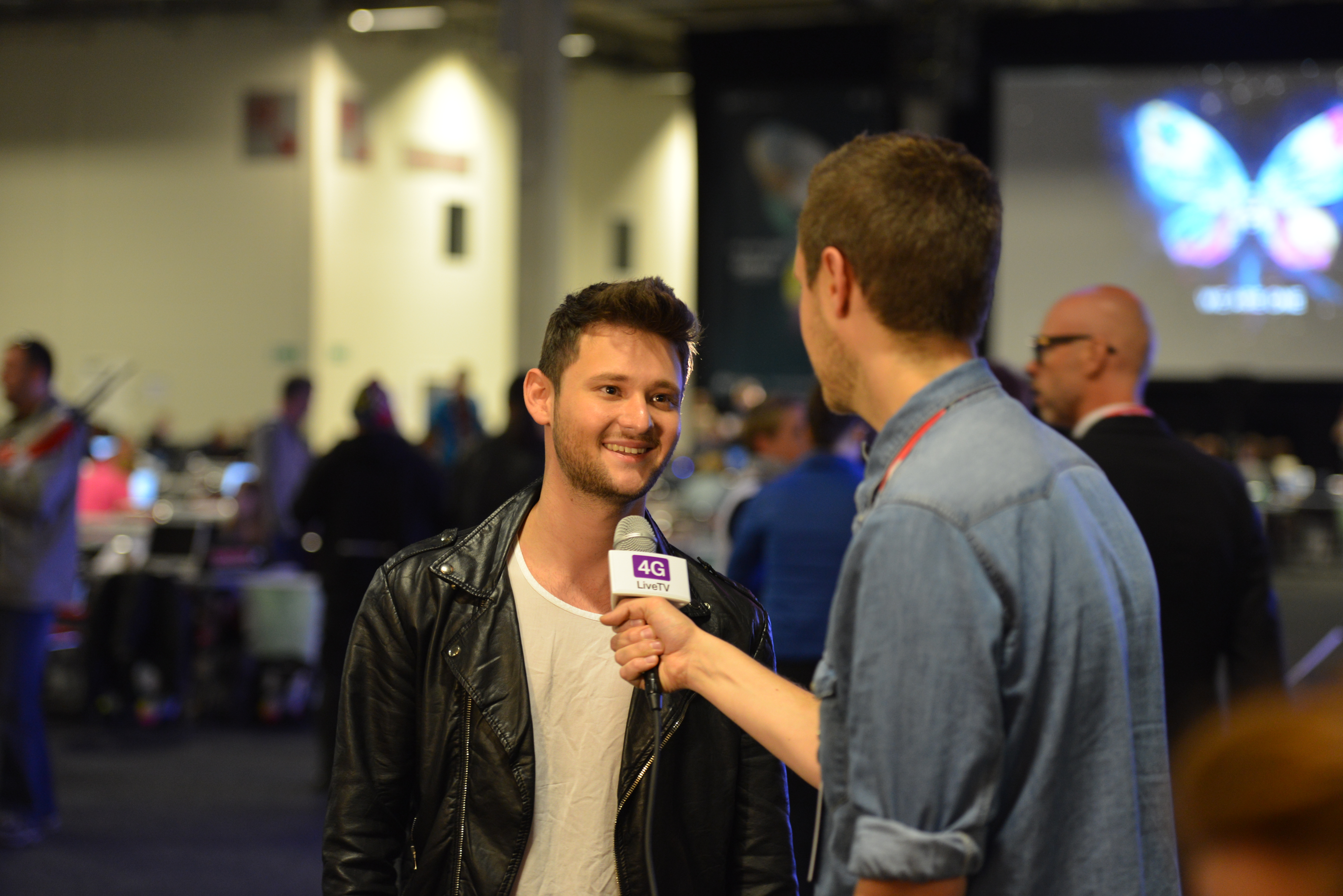 Eldar Gasimov, host for the Eurovision Song Contest 2012, visiting Malmö for the Eurovision Song Contest 2013.